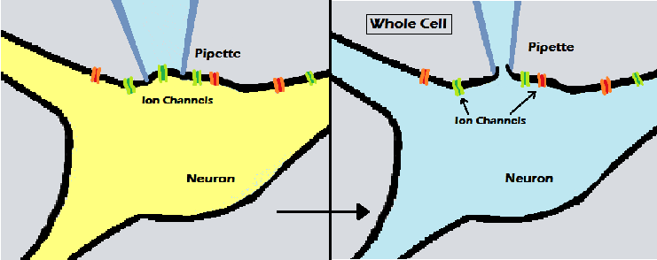 Whole Cell Patch Clamp